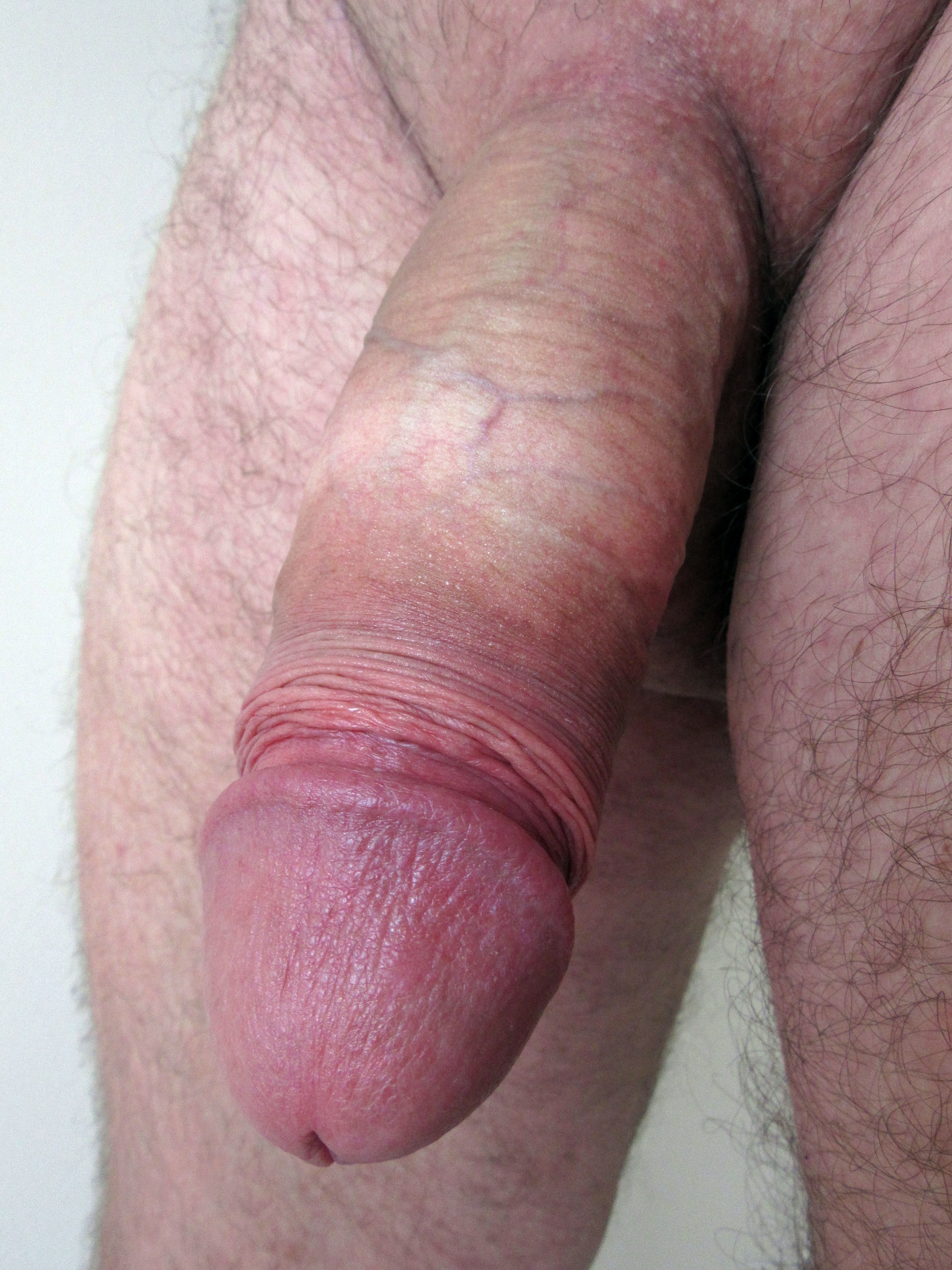 The practice of keeping the foreskin pulled back